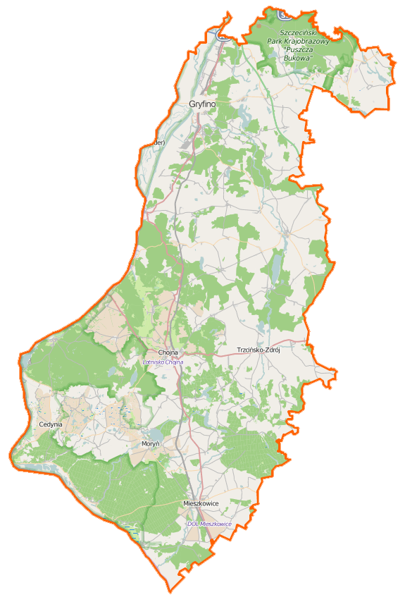 Map of Powiat gryfiński, Poland This map of Powiat gryfiński was created from OpenStreetMap project data, collected by the community. This map may be incomplete, and may contain errors. Don't rely solely on it for navigation.